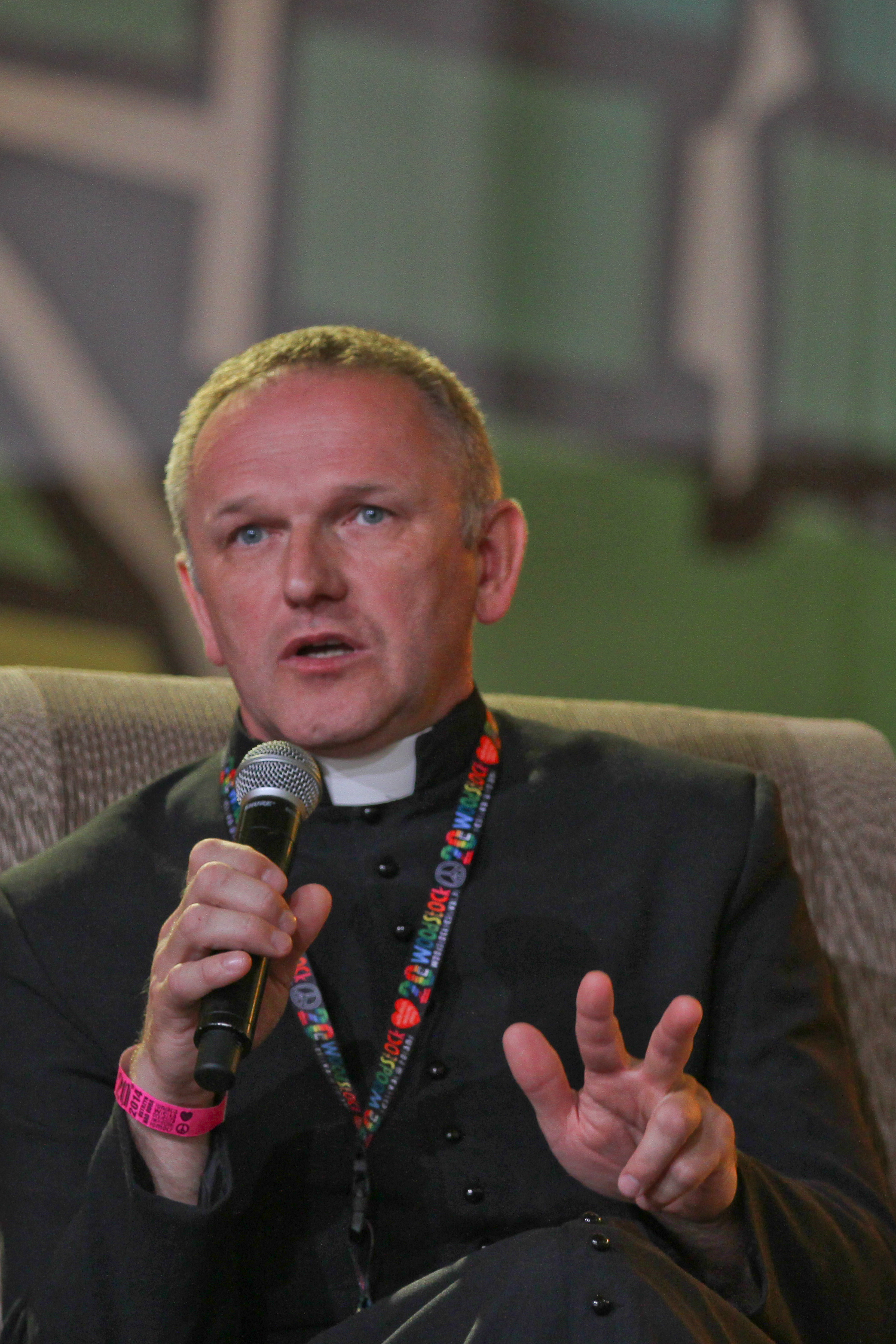 Przystanek Woodstock 2014.